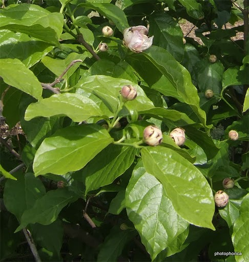 Sinocalycanthus chinensis